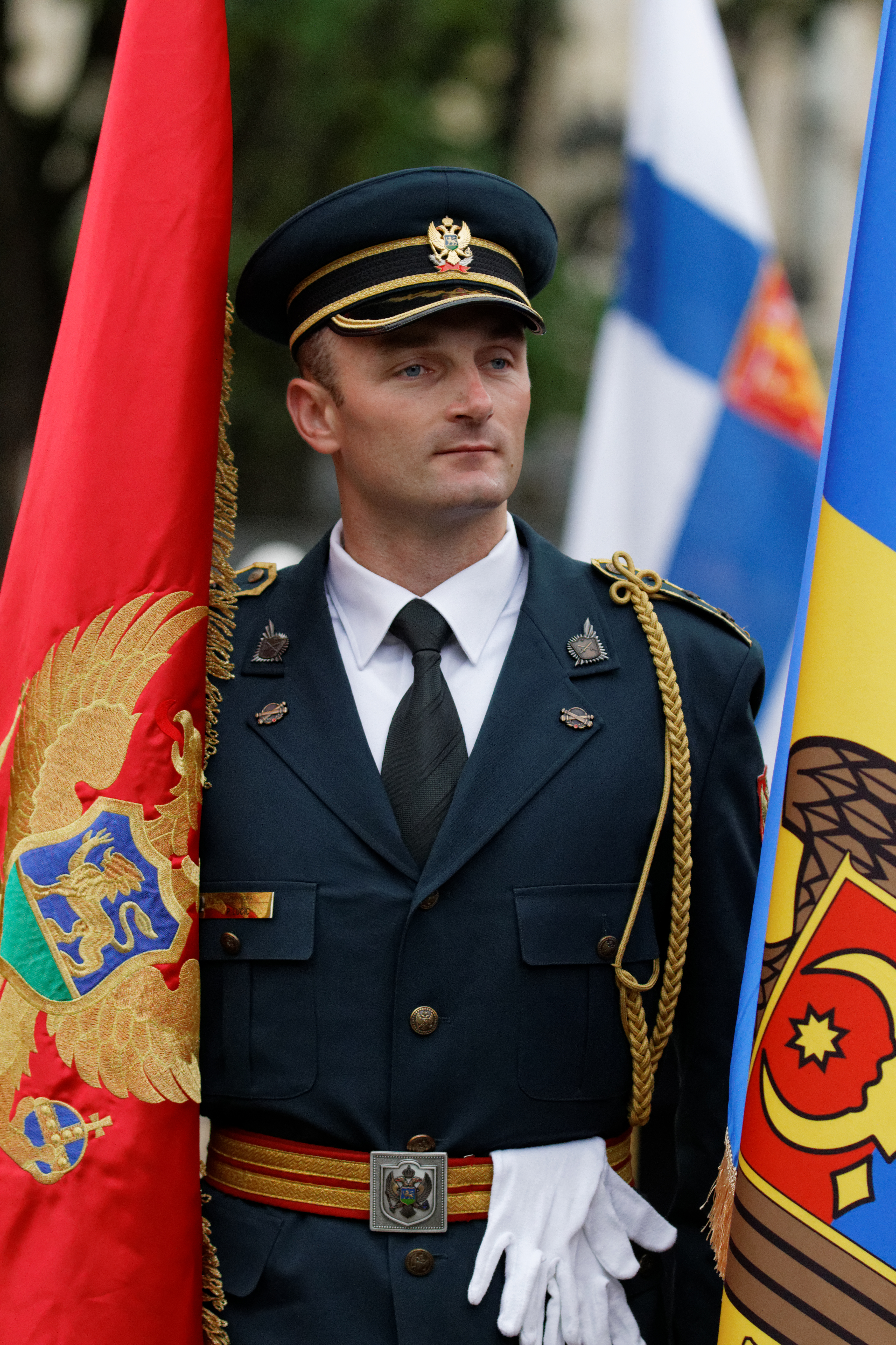 Bastille Day 2014 military parade on the Champs-Élysées in Paris. Color guards.